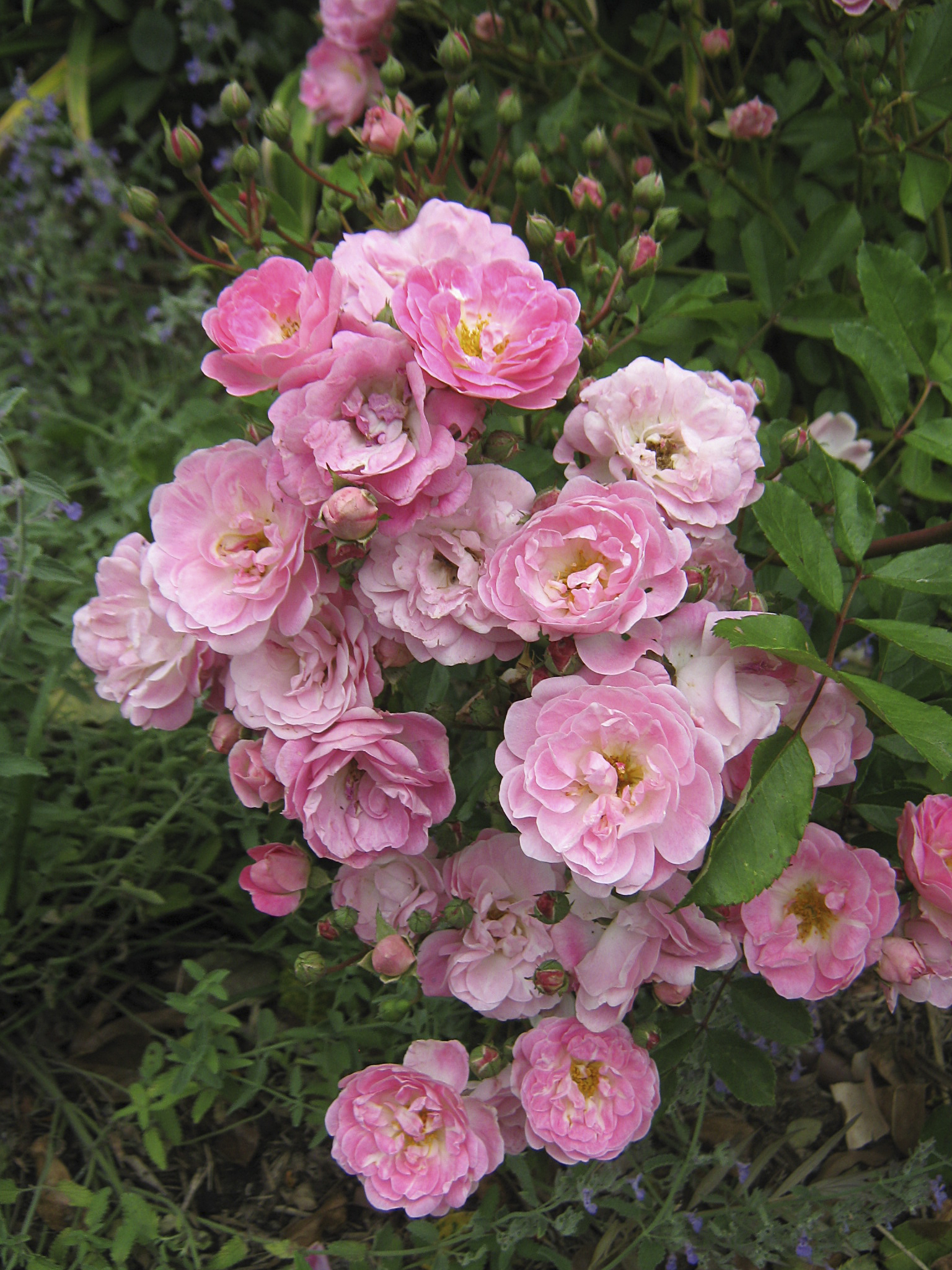 Rose 'Borderer', Floribunda by Alister Clark 1918; Photographed in the Alister Clark Memorial Rose Garden, Bulla, Victoria